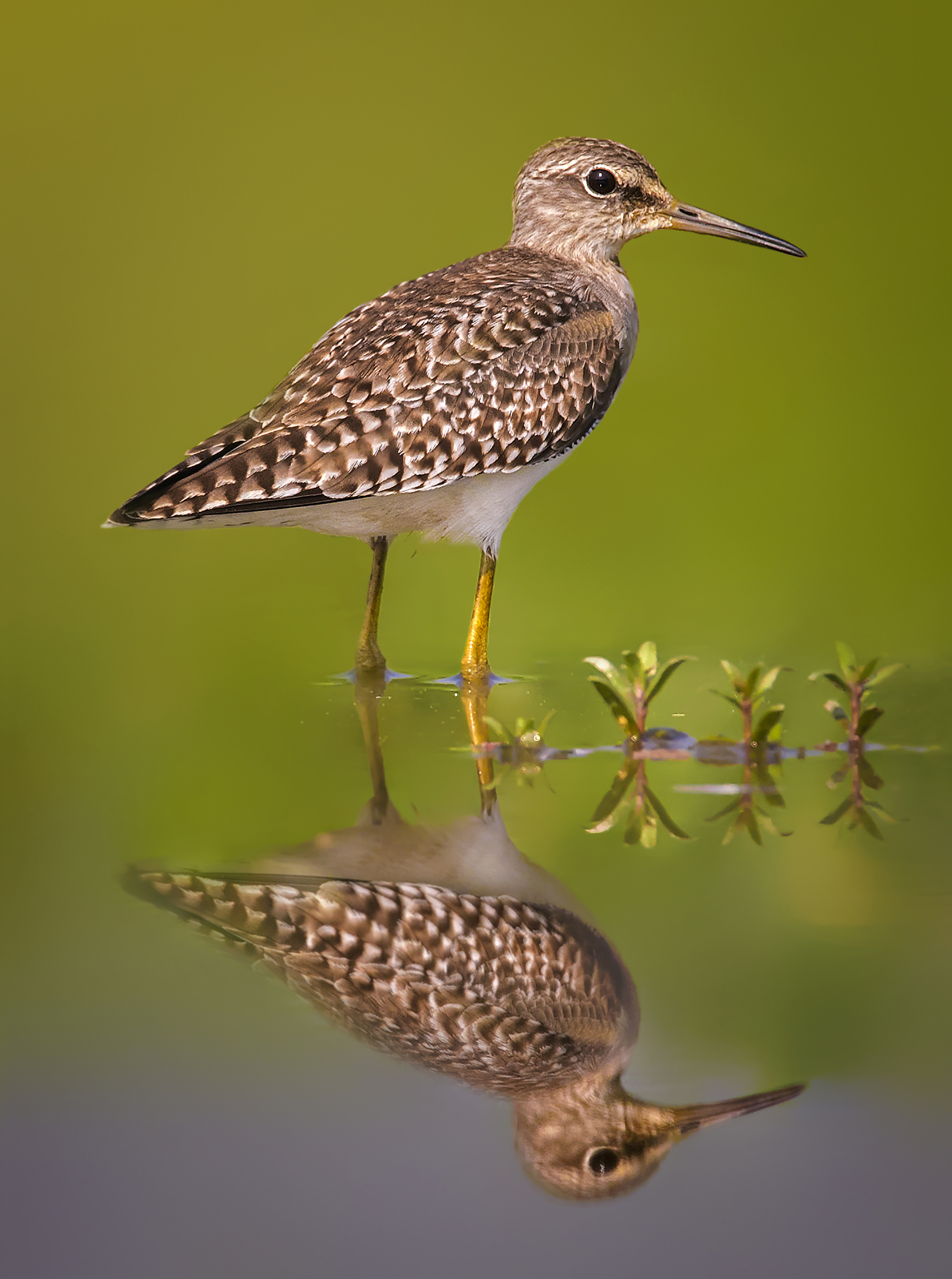 The wood sandpiper (Tringa glareola) is a small wader at Bangabandhu Sheikh Mujib Safari Park